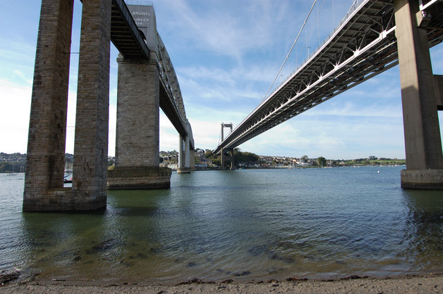 Tamar bridges from below